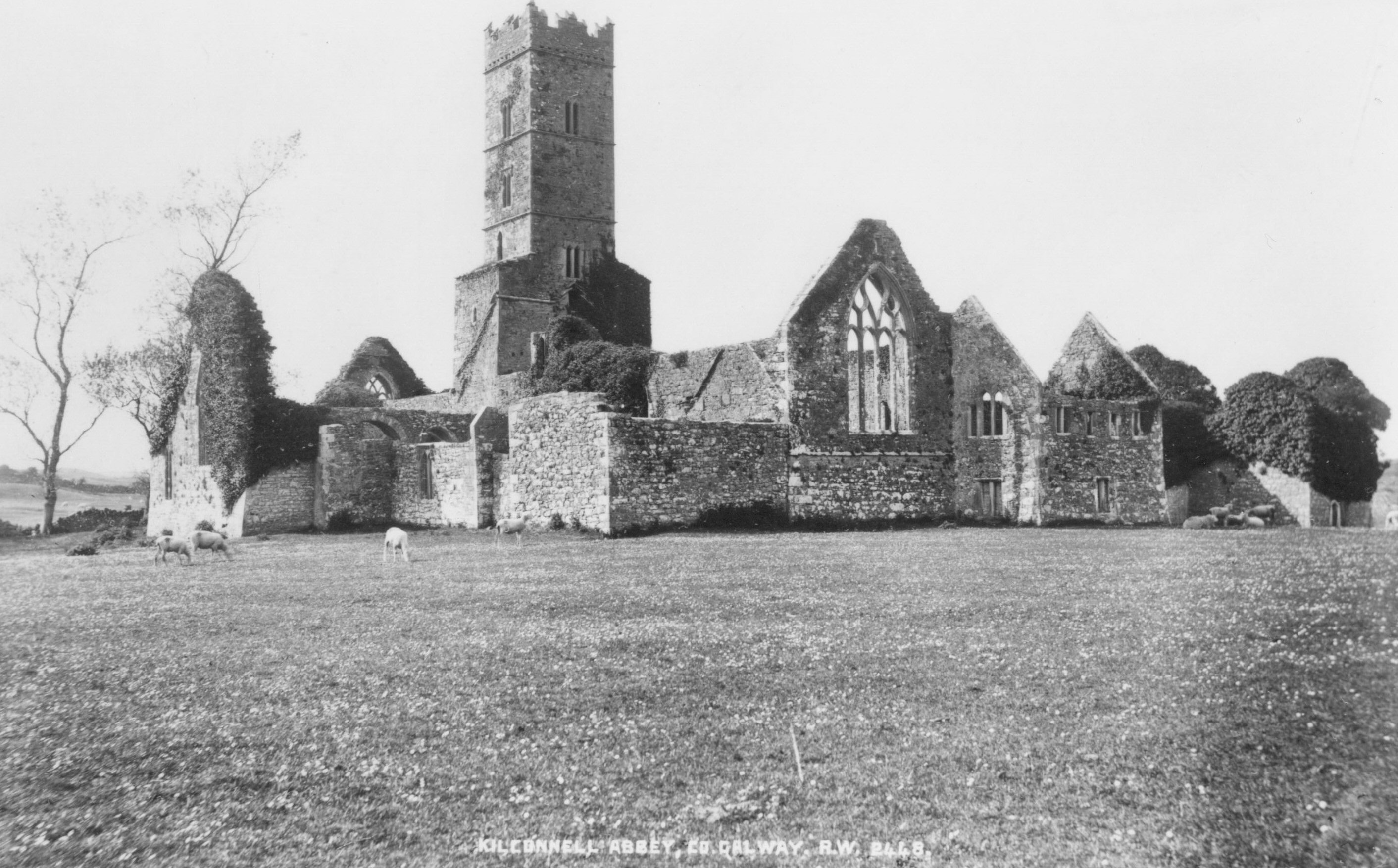 Photograph of ruins of Kilconnell Abbey, in County Galway, Ireland